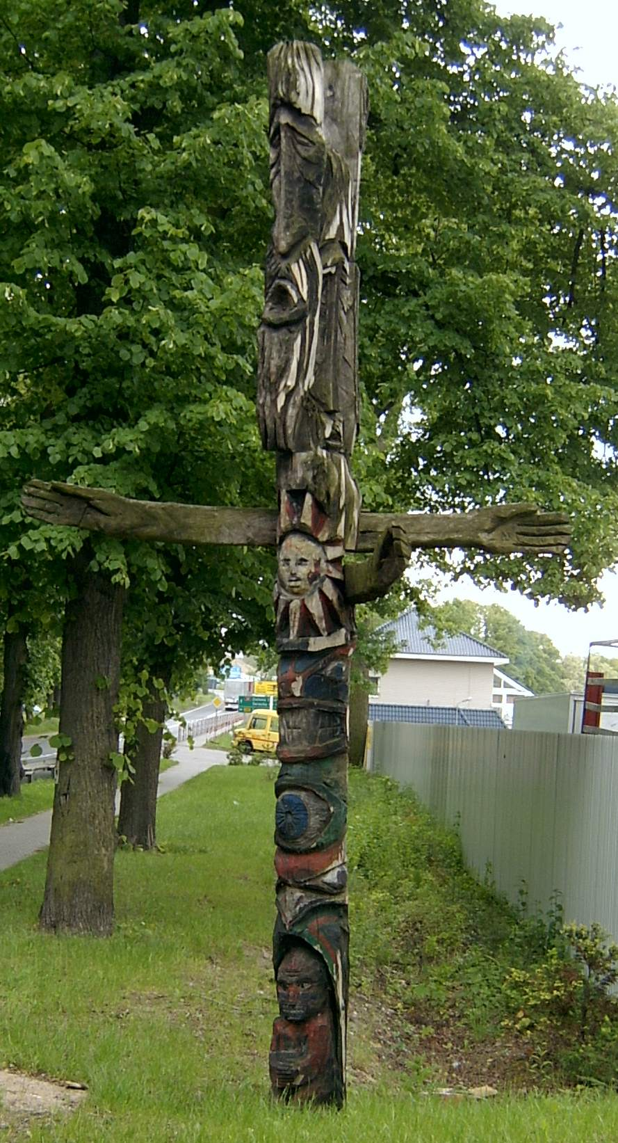 Totem pole in Słubice